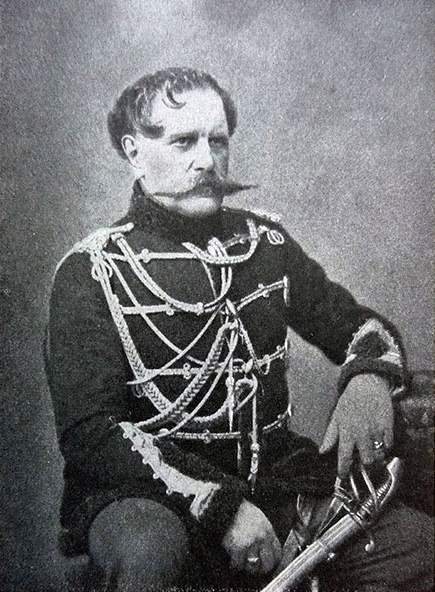 Golenishchev-Kutuzov, Vasily Pavlovich